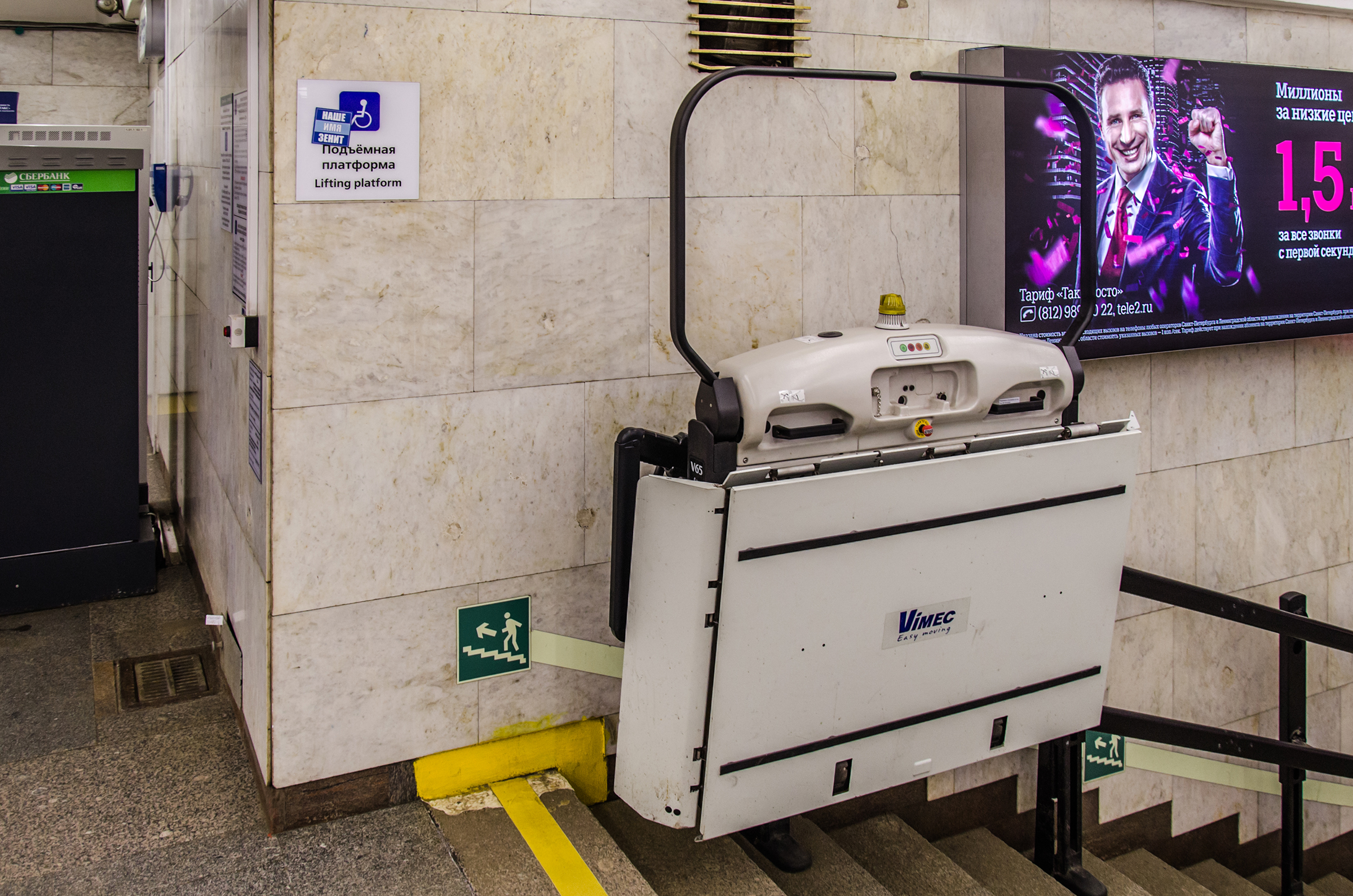 Leninsky prospekt subway station in Saint Petersburg. Lifting platform for disabled persons